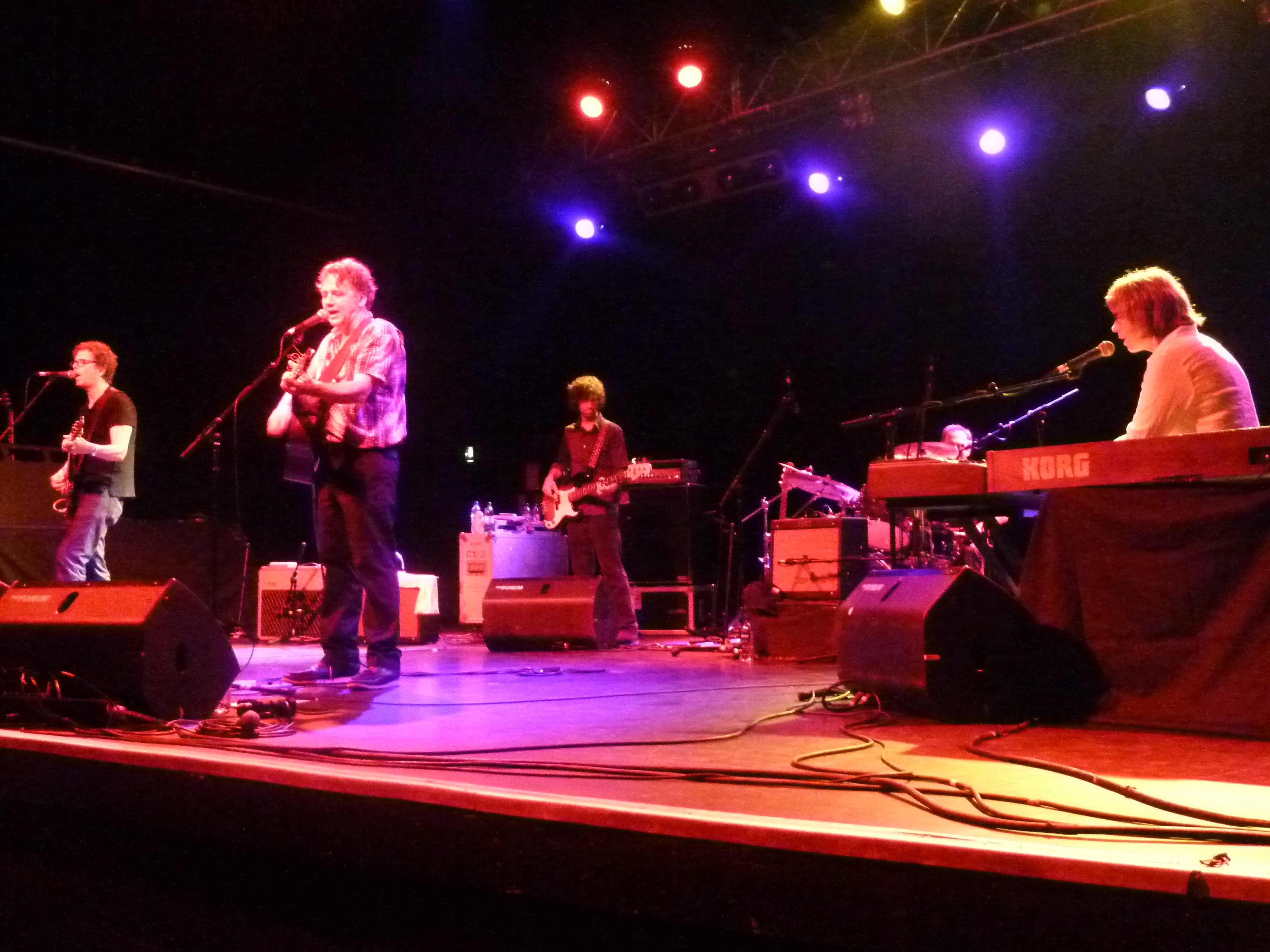 The Jayhawks return to London! HMV Forum Kentish Town